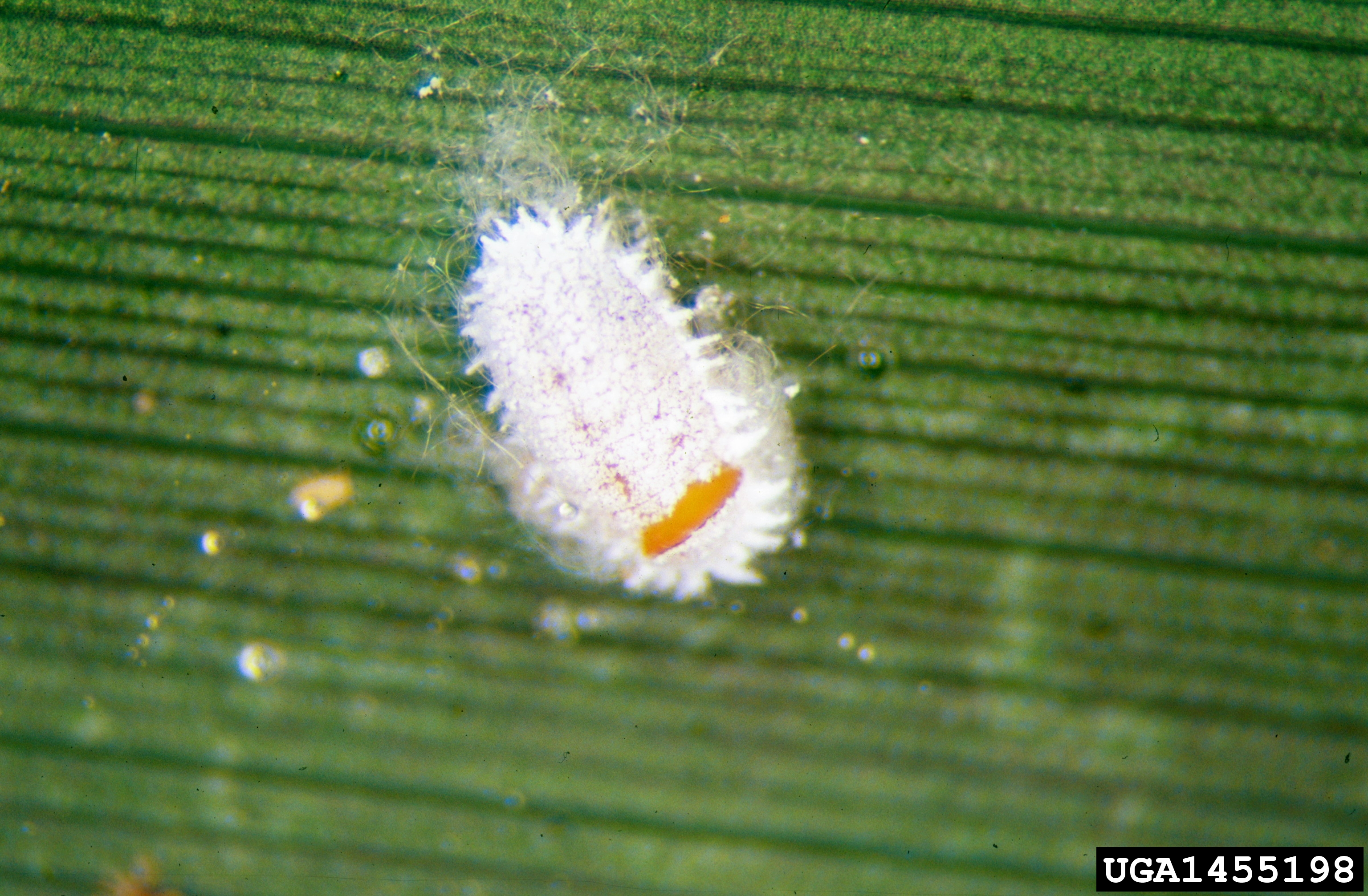 Planococcus citri mealybug parasitized by Leptomastix dactylopii wasp